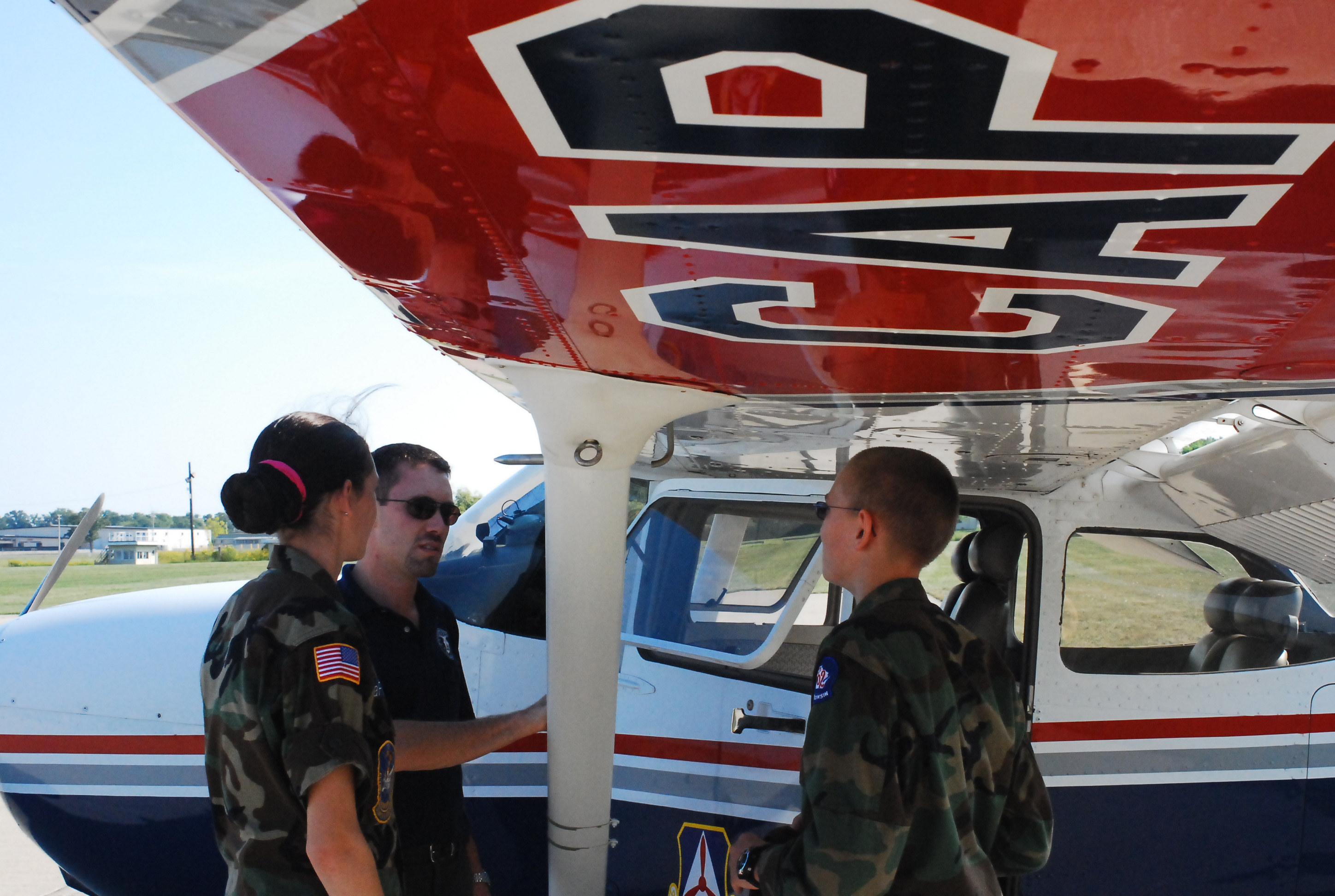 Civil Air Patrol cadets standing under the wing of an airplane in Wittman Regional Airport, Wisconsin.